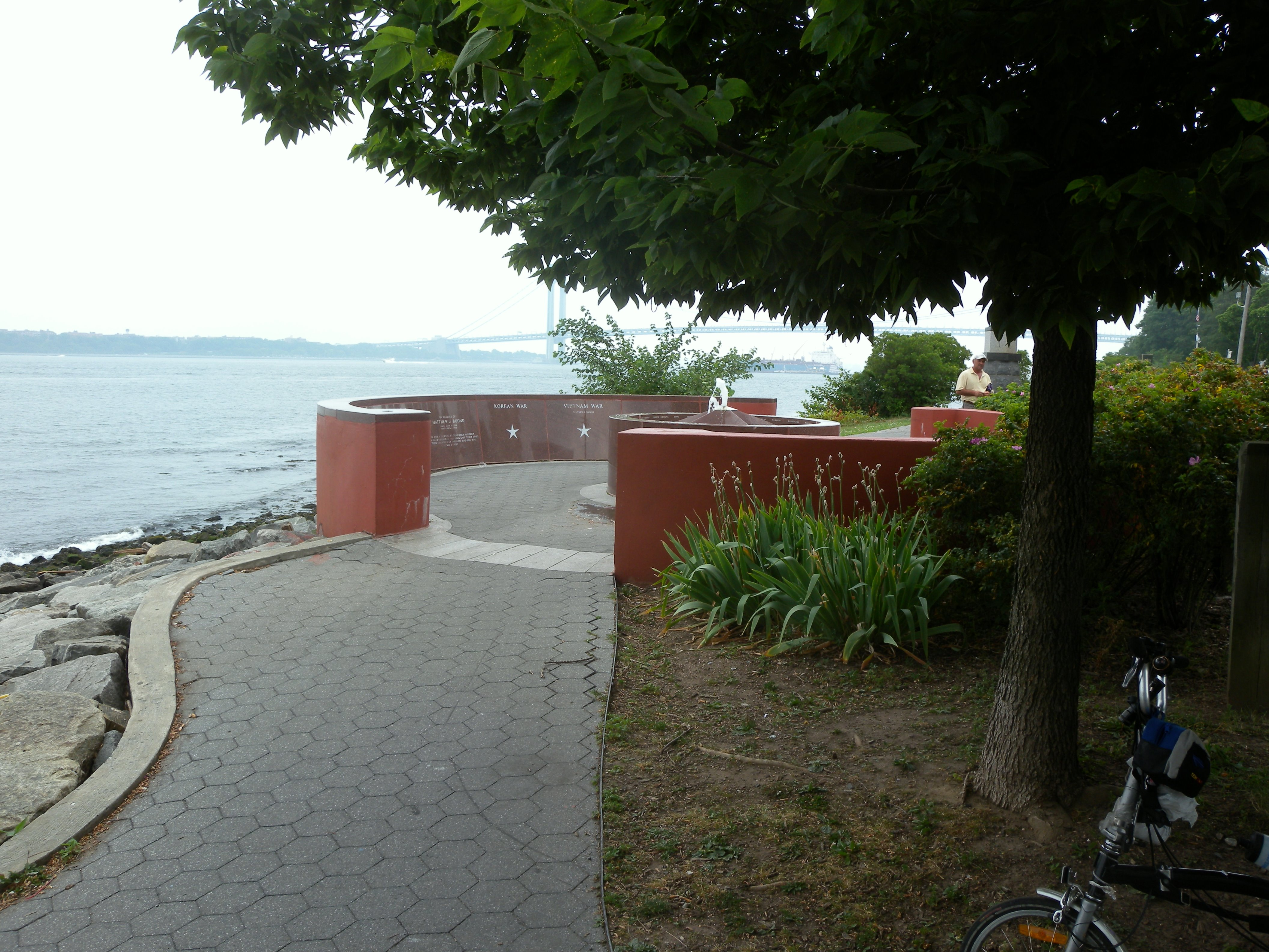 Looking southeast at war memorial fountain in Rosebank on a cloudy midday.